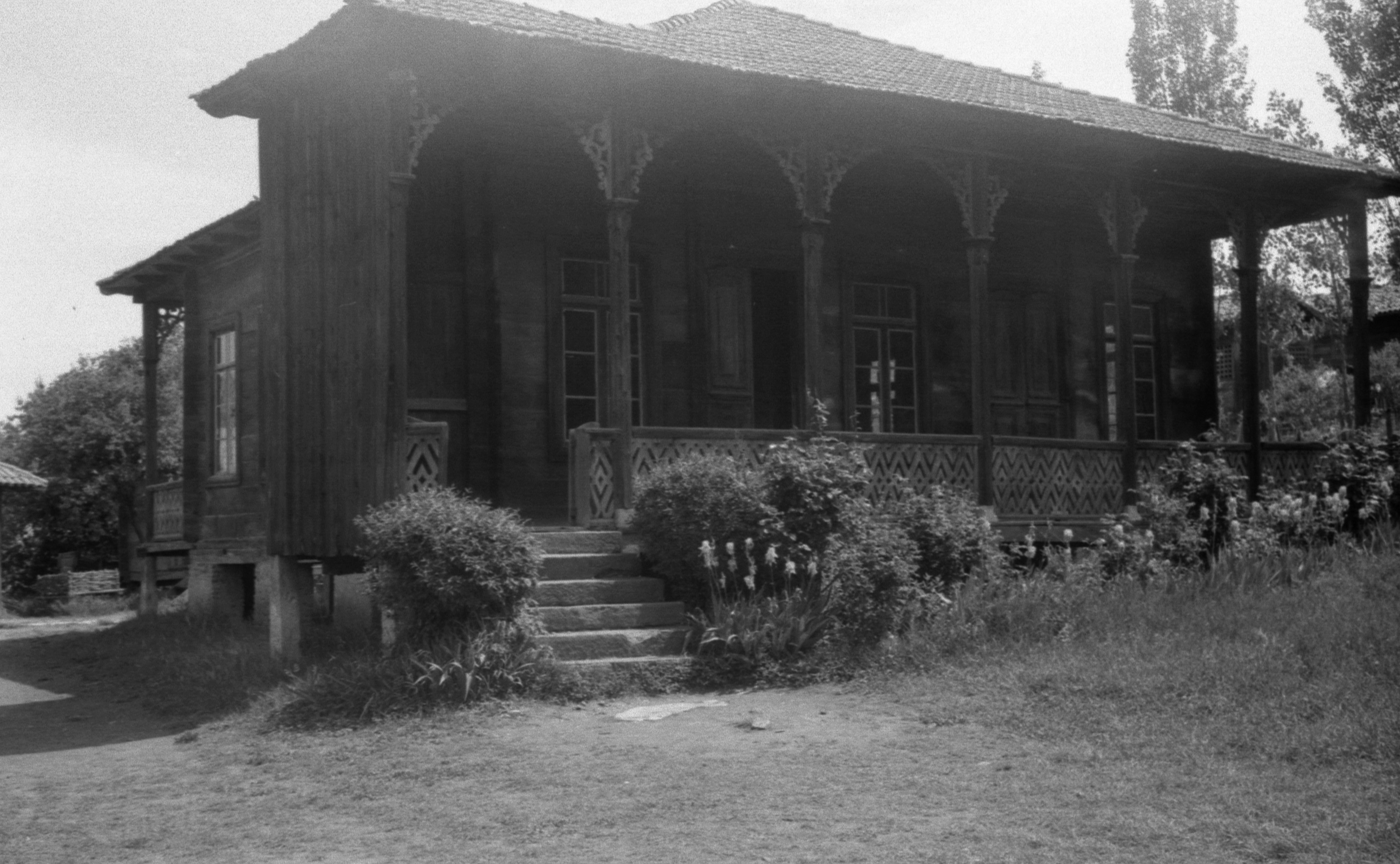 Tbilisi, Wake-Saburtalo, spring 1987, home of Konstantine Gamsakhurdia, museum